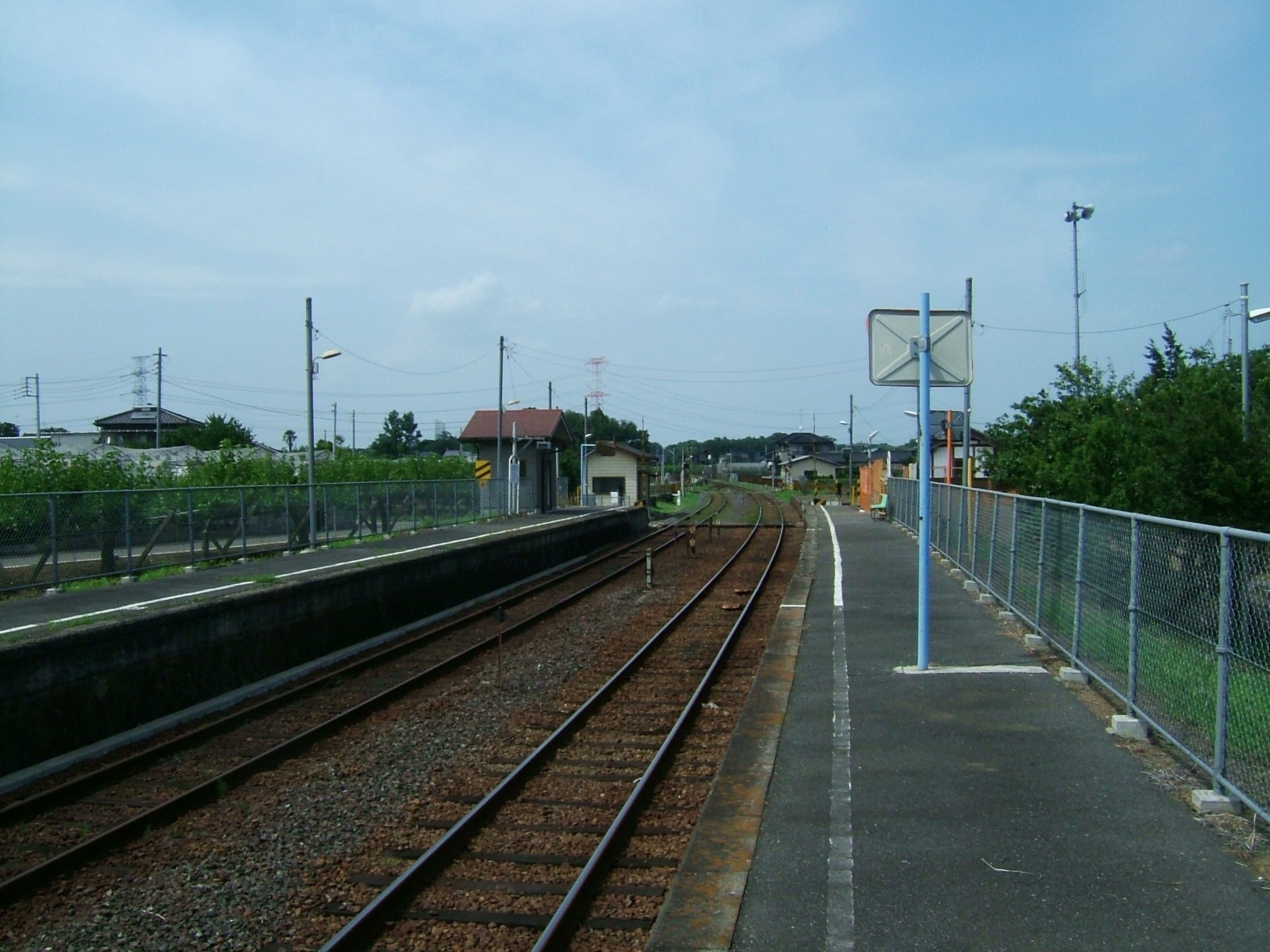 Tobanoe Station platform (Kanto Railway Jōsō Line)